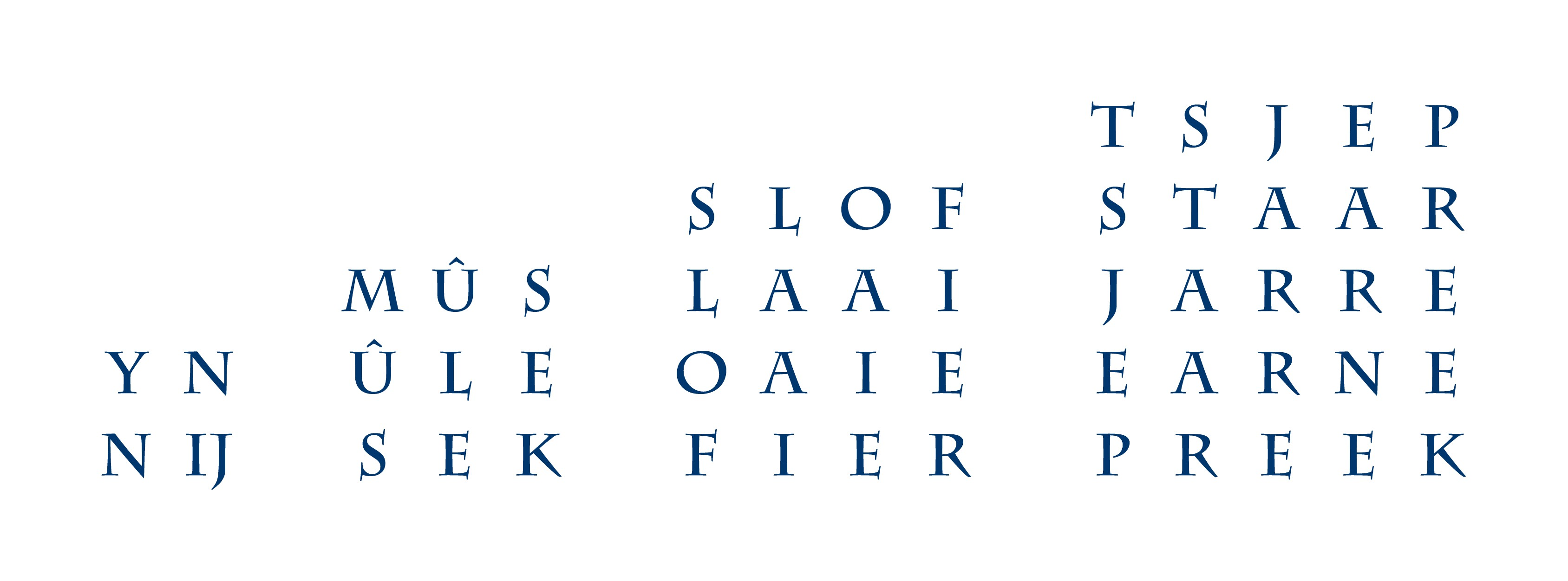 Frisian Word squares